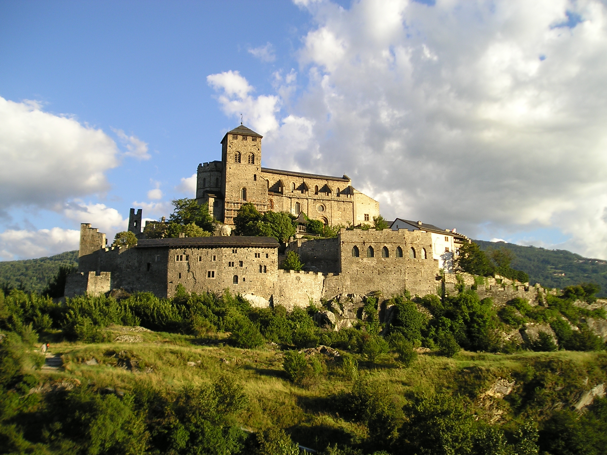 View of the Valère Castle (Château de Valère) in Sion, Switzerland